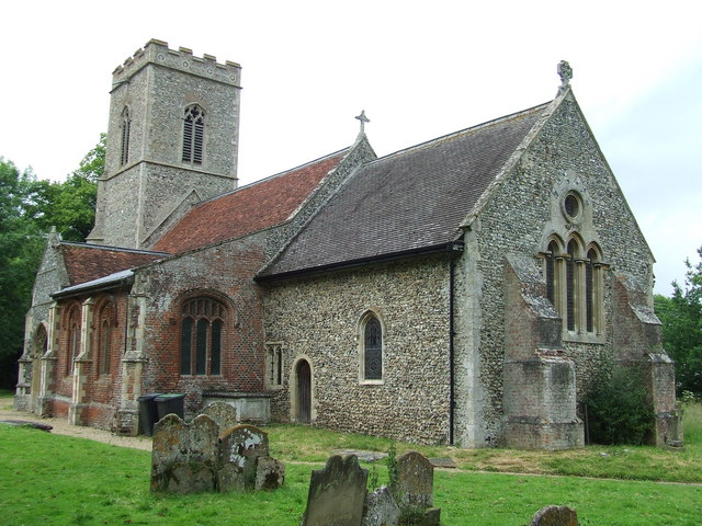 All Saints' parish church, Kenton, Suffolk, seen from the southeast